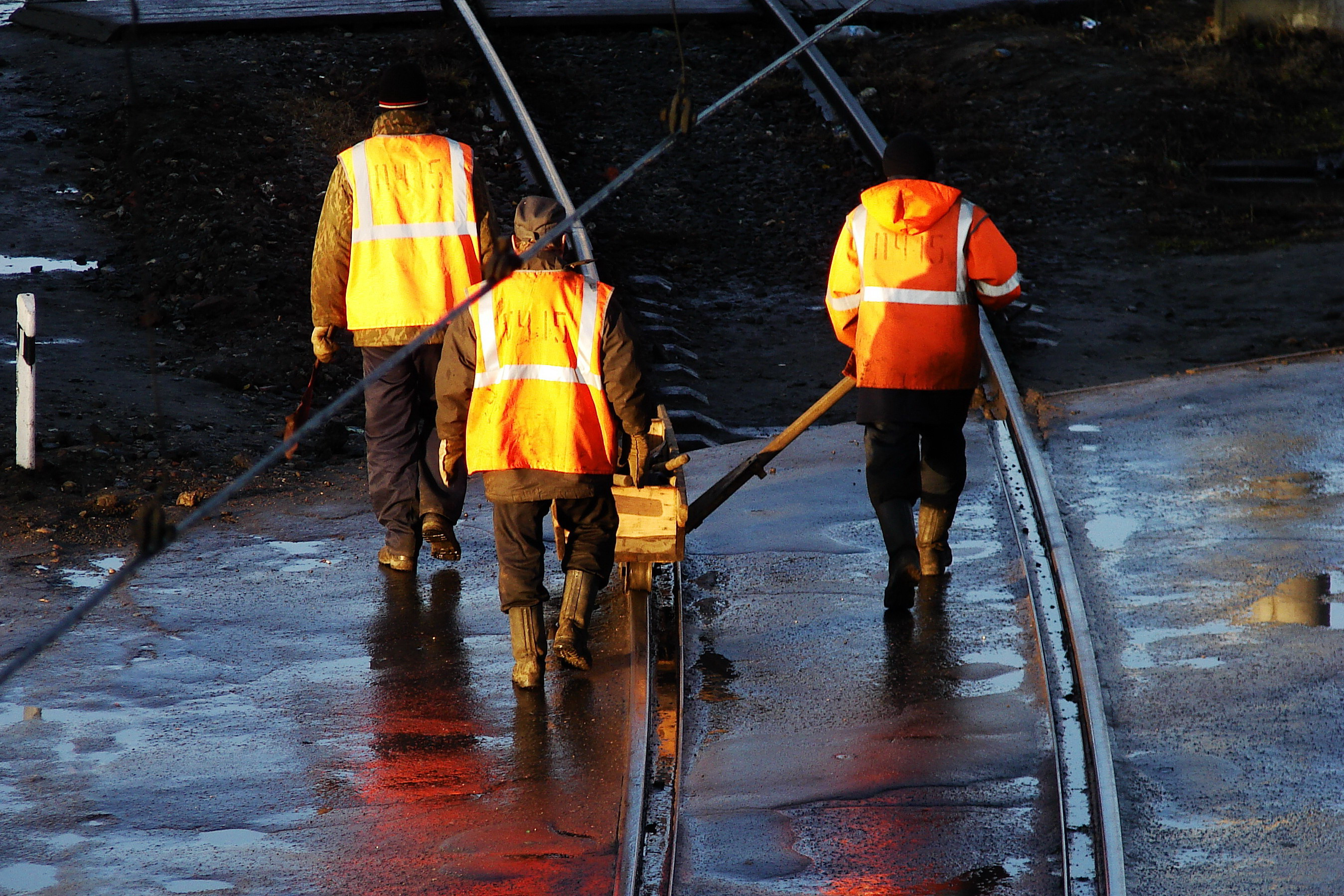 Russian Railways, waypoint cart